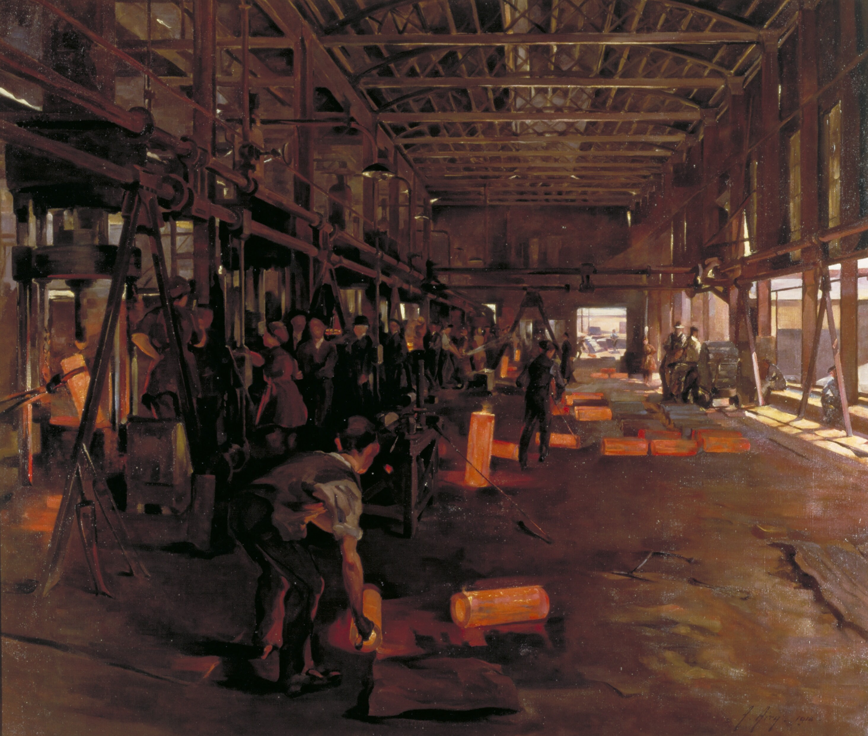 This piece was a particular challenge for Airy who had to work with great speed to capture the colour of the molten shells. The tremendous heat of the interior added to the intensity, and one one occassion the ground became so hot that her shoes were burnt off her feet. image: The interior view of a shell forge showing the glowing hot shell cases emerging from the furnaces on the left of the composition. Munitions workers man the furnaces on the left; in the foreground is the back of a worker leaning over a glowing hot shell case. Sunlight streams in though the windowless wall on the right of the forge.